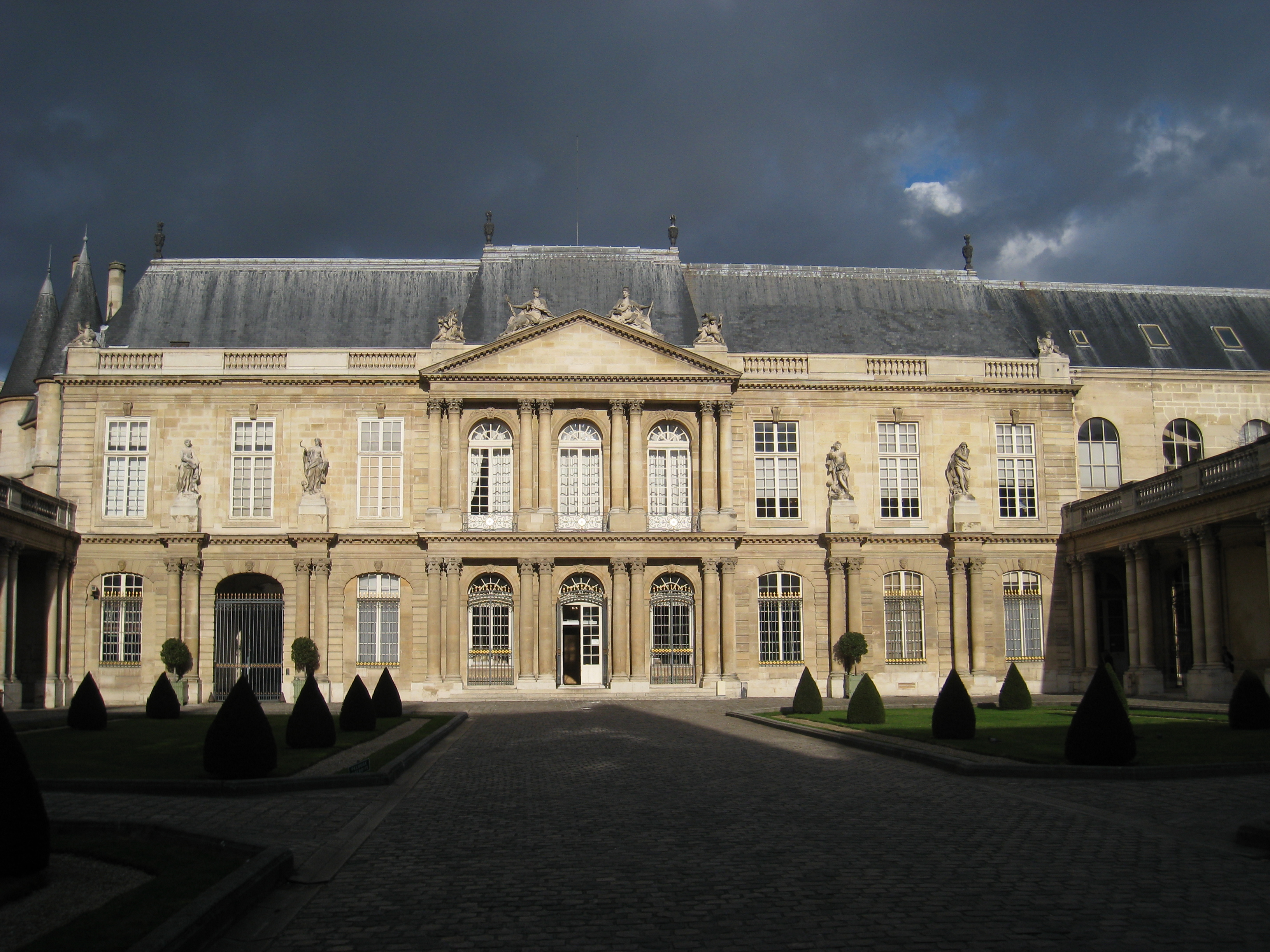 Hôtel de Soubise, Paris, France - exterior view of front facade.